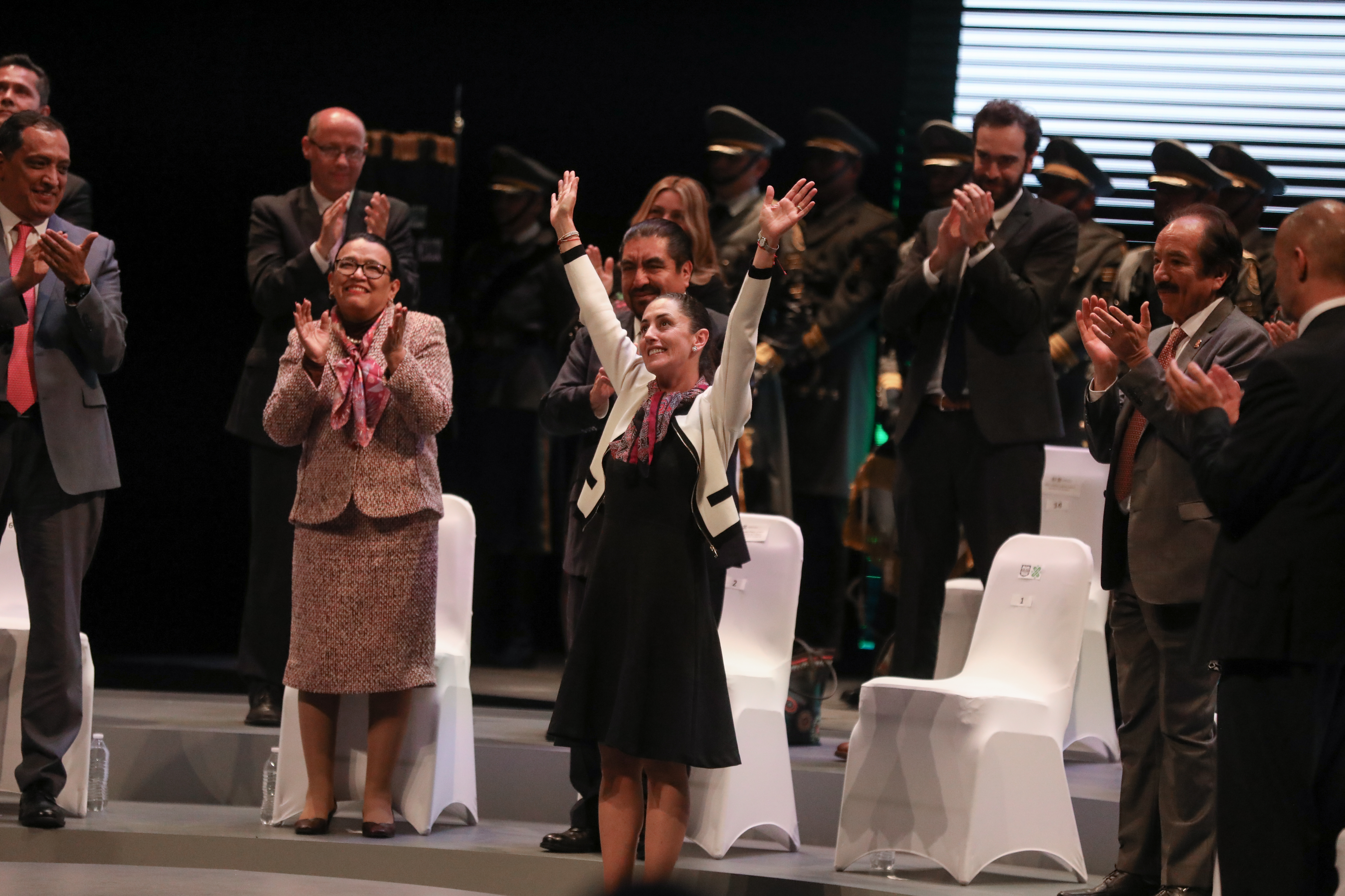 Después de tomar protesta como jefa de gobierno, Claudia Sheinbaum acudió al Teatro de la Ciudad de México para presentar a su gabinete y programa de gobierno.